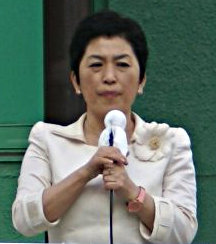 SDP politician Mizuho Fukushima campaigning in Shinjuku